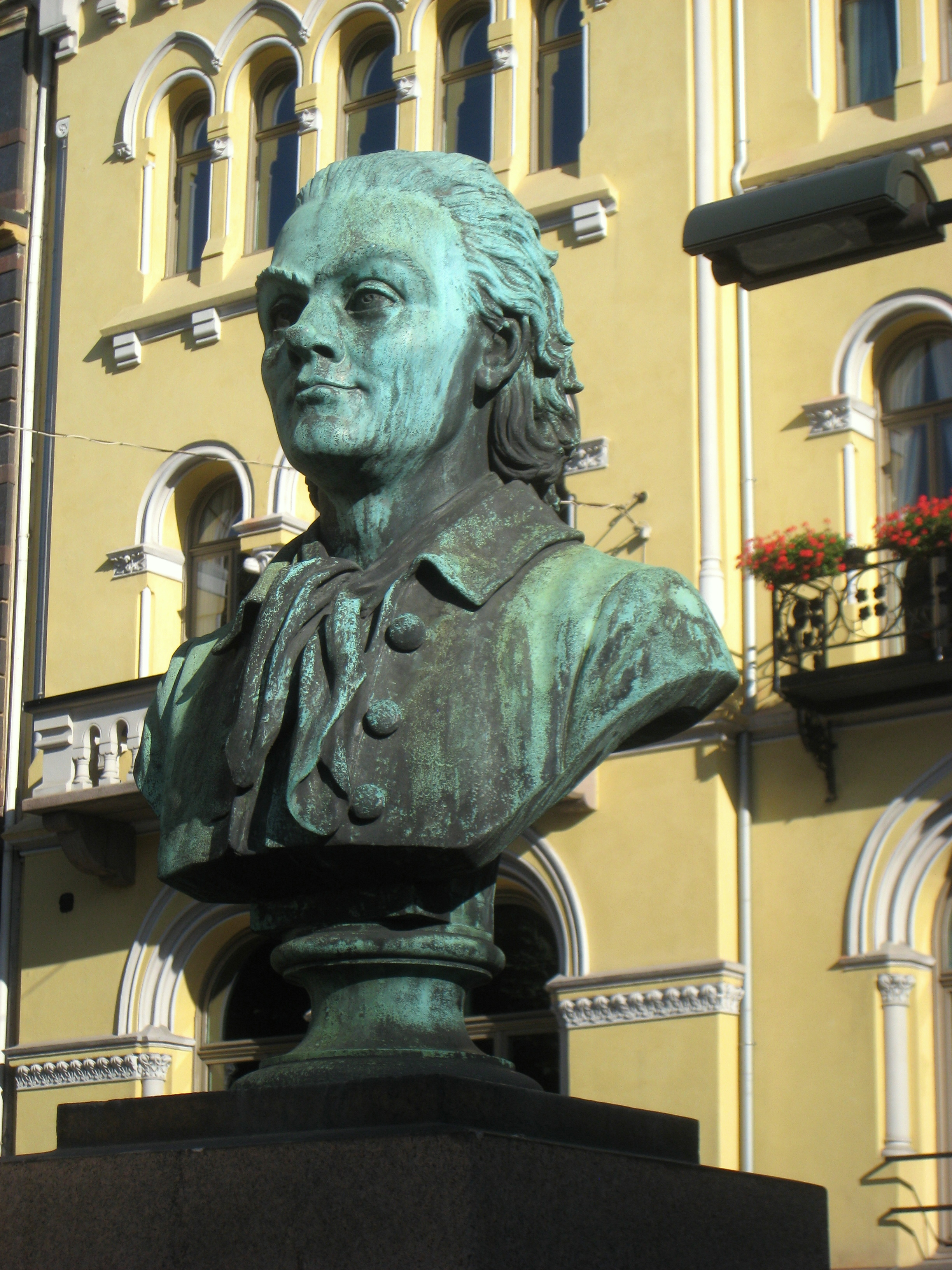 Bust of poet Johan Herman Wessel (1742-1785), in the Wessels plass in front of the Athenaeum building, Oslo, Norway. Bust was placed in this location in 1891; photograph taken on September 12, 2009.